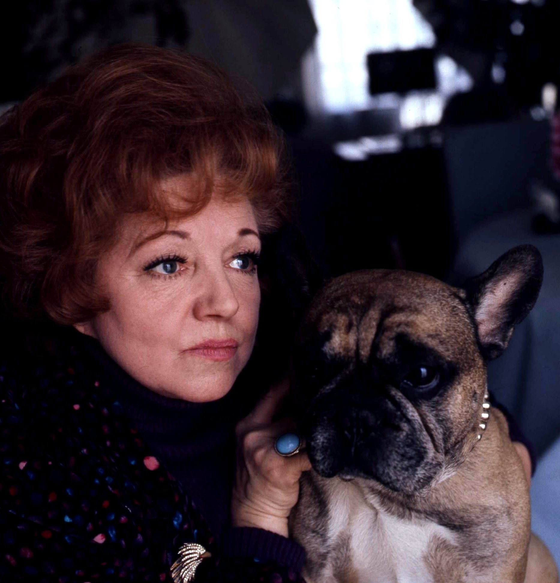 Portrait of Hermione Baddeley. Portrait of Hermione Baddeley at her flat in Victoria London